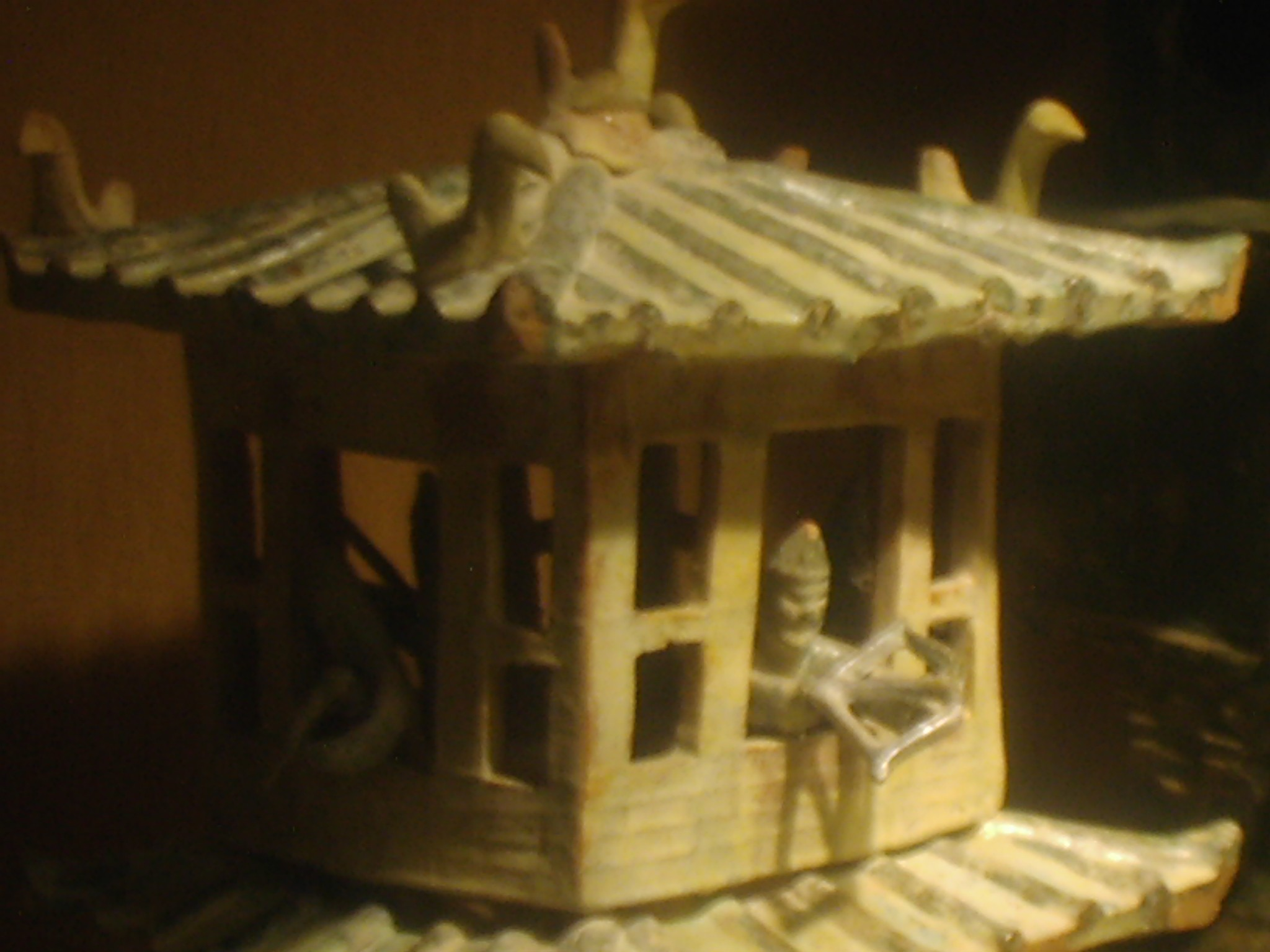 Close up view of an archer figurine brandishing a crossbow while standing on the top floor of a model watchtower. This is one of twelve pictures showing architectural models dated to the Chinese Eastern Han Dynasty (25–220 AD), made of earthenware with a green lead glaze, featured at the Metropolitan Museum of Art in New York City. The items include: Three watchtowers House with a courtyard Granary tower A large stove A mill A wellhead with a bucket Domesticated animal pens A square duck pond with rails